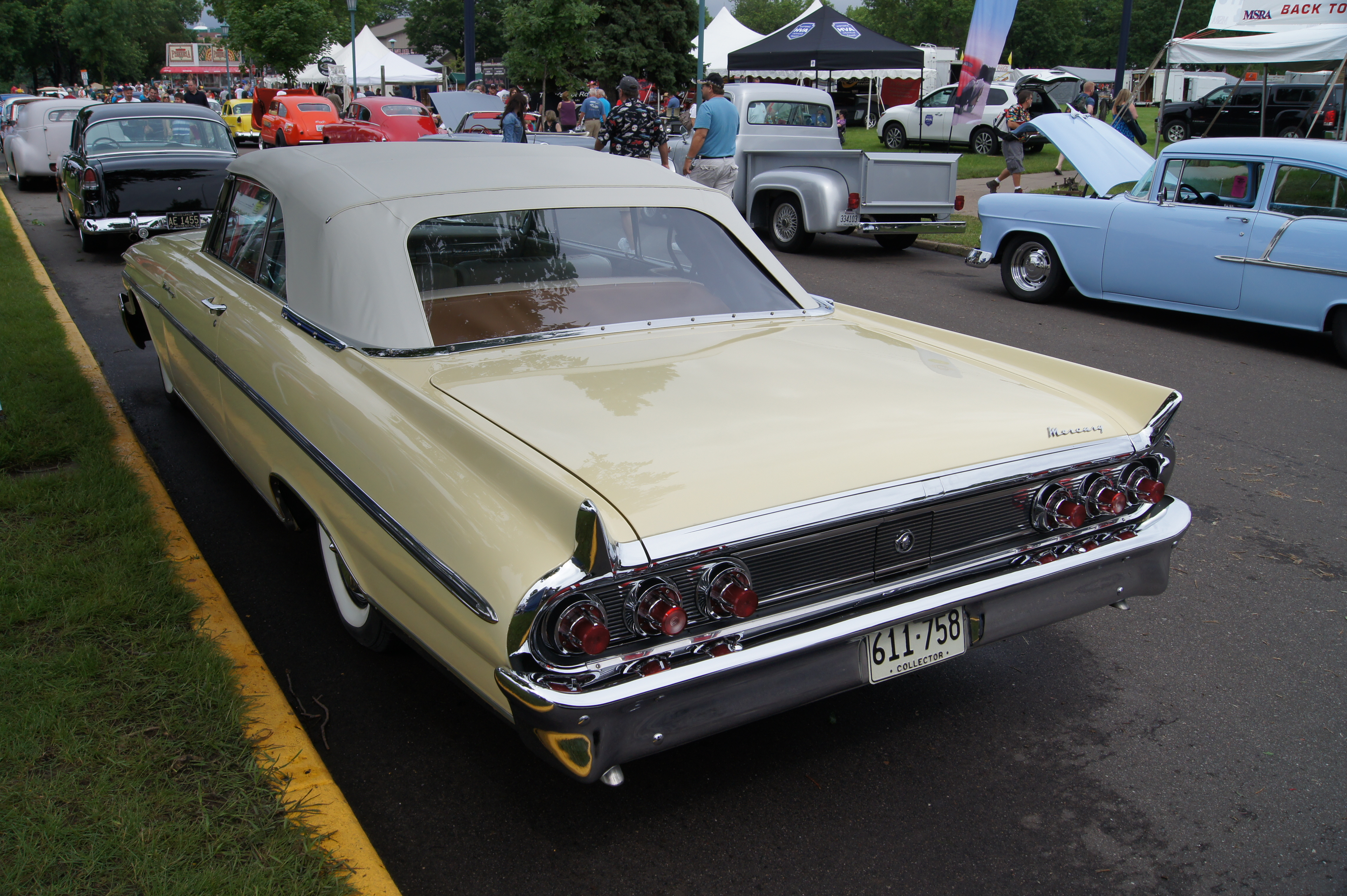 MSRA “BACK TO THE 50′s” 40th ANNIVERSARY June 21-23, 2013 State Fairgrounds St. Paul Minnesota More Car Pictures